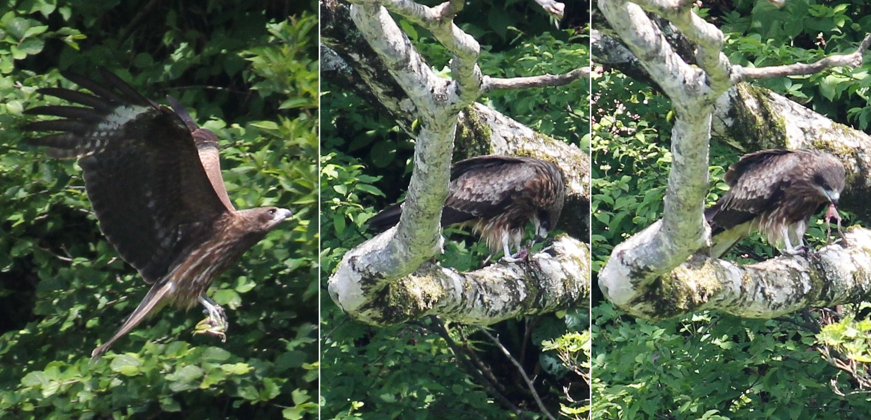 Milvus migrans lineatus capturing and eating Rhacophorus arboreus around Yashagaike (Yasha Pond), Minamiechizen, Fukui prefecture, Japan.